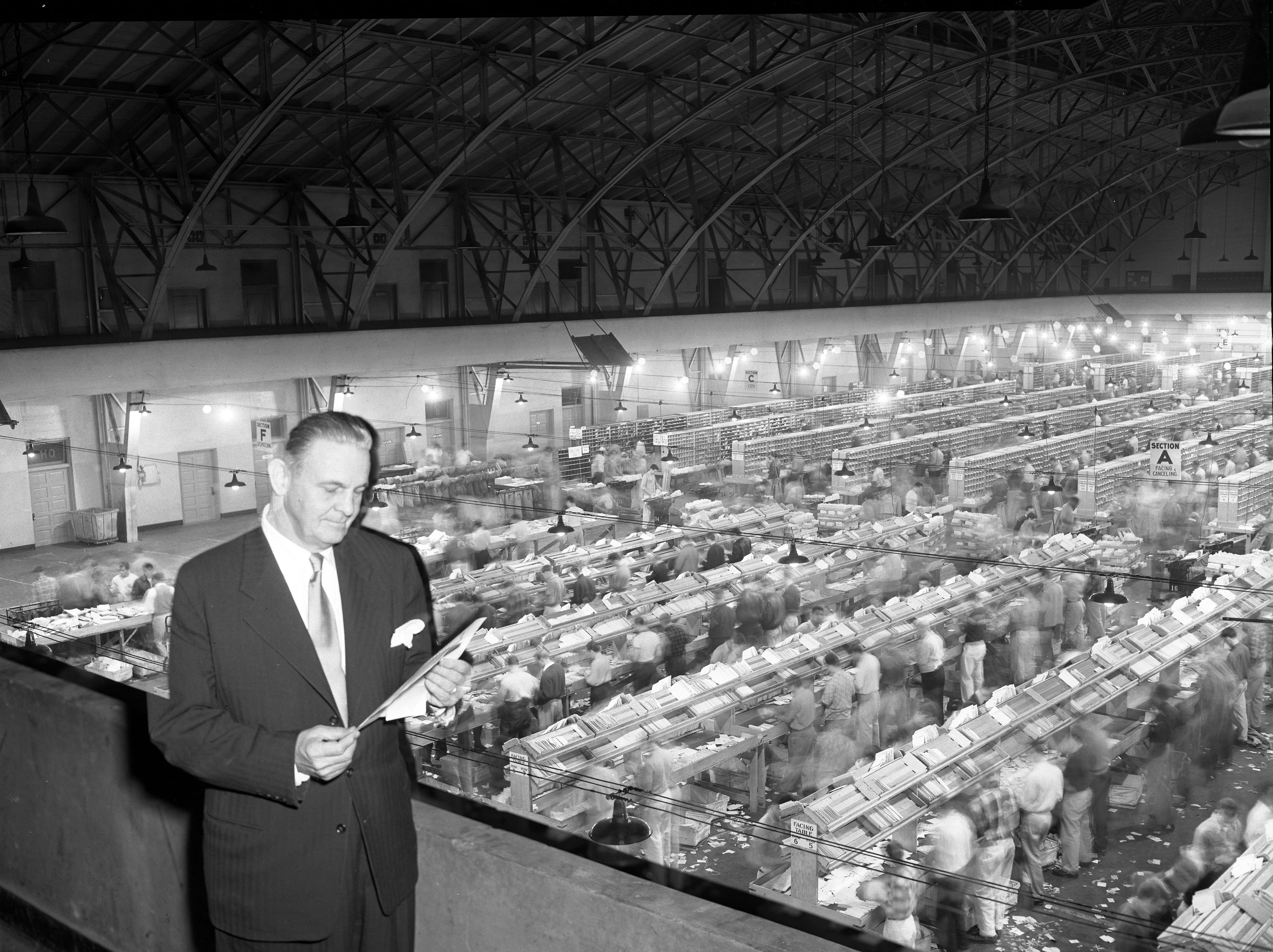 Title: Michael D. Fanning, U.S. Postmaster, standing in rafters above employees working in mailing sorting warehouse in Los Angeles, Calif., 1951 Publication:Los Angeles Daily News Publication date:December 1, 1951 Source:Los Angeles Times photographic archive, UCLA Library Note about non-renewal of copyright: [1]